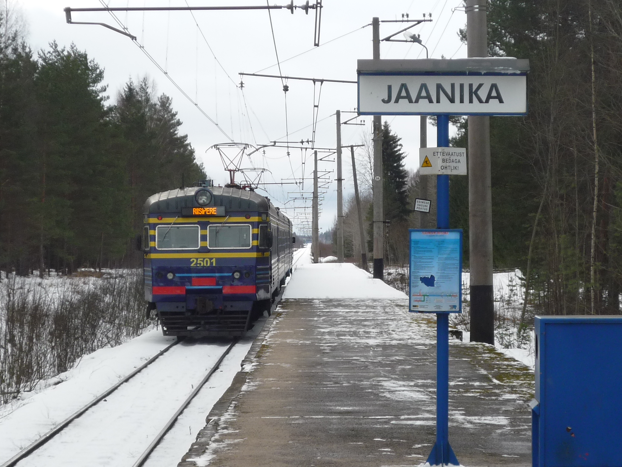 Tallinn-Riisipere passenger train leaving Jaanika railway station. Nissi parish, Harju county, Estonia.